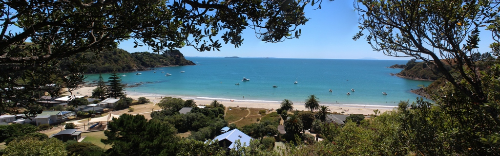 View of Palm Beach, New Zealand - from an elevation of 31M above sea level - Looking North at low tide.